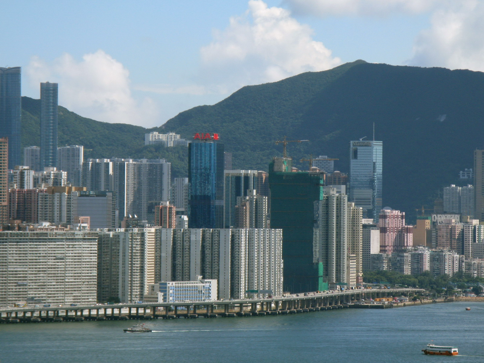 Fortress Hill